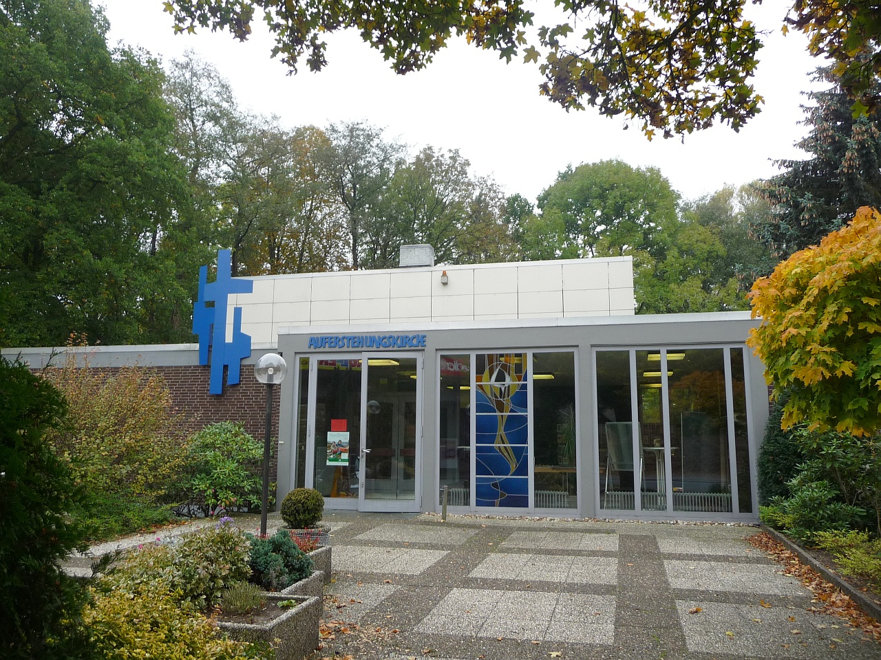 Resurrection-church in Bremen-Lesum; Evangelical-Free Church (Baptists)